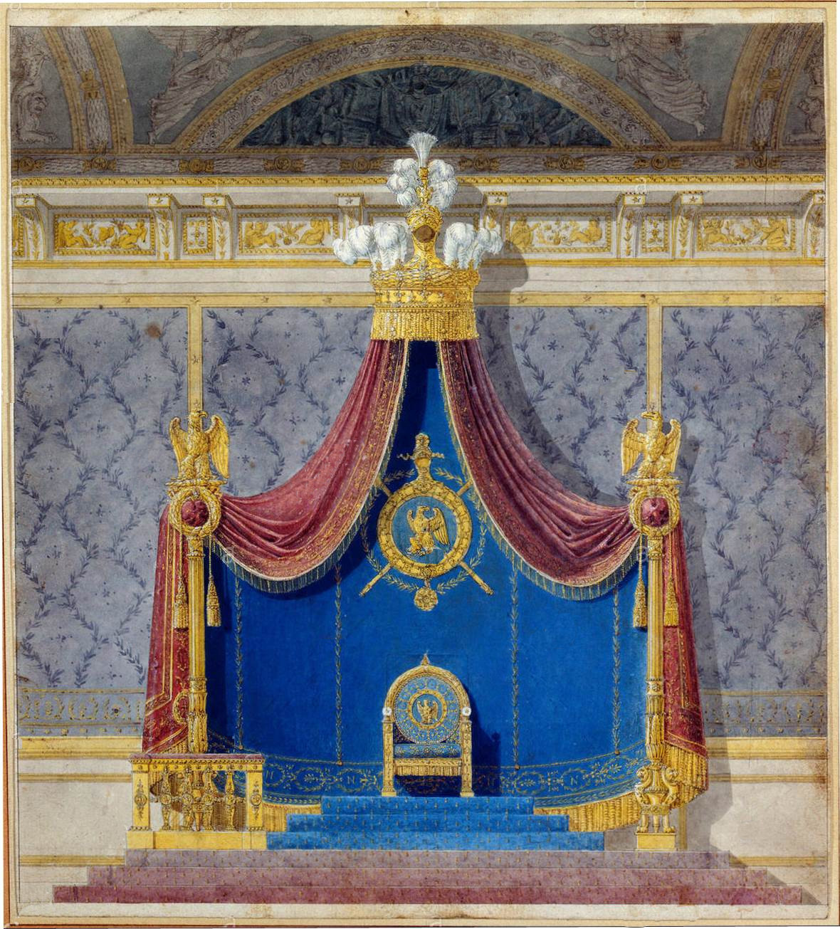 Drawing of the Throne of Napoleon I in Tuileries Palace.